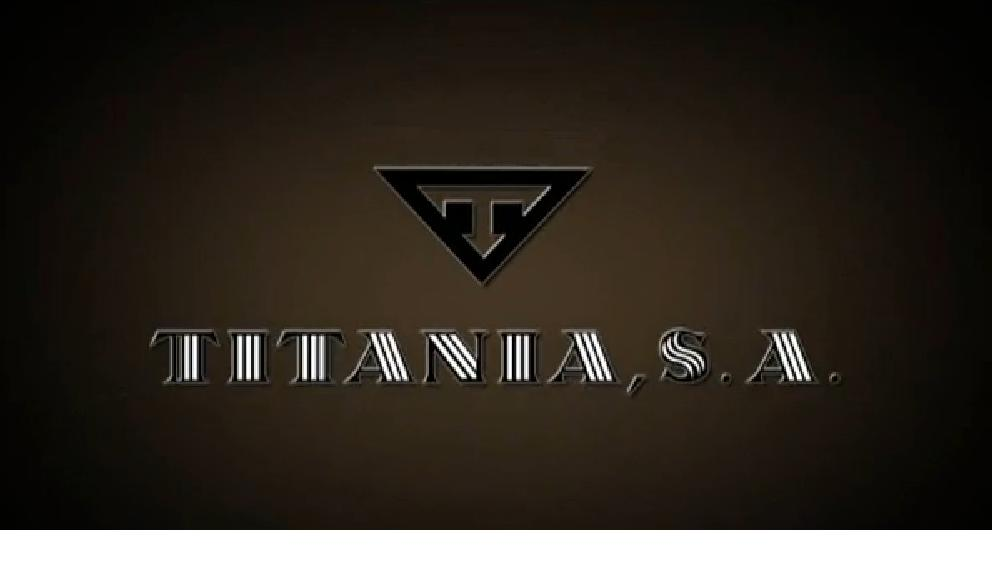 titania s.a.